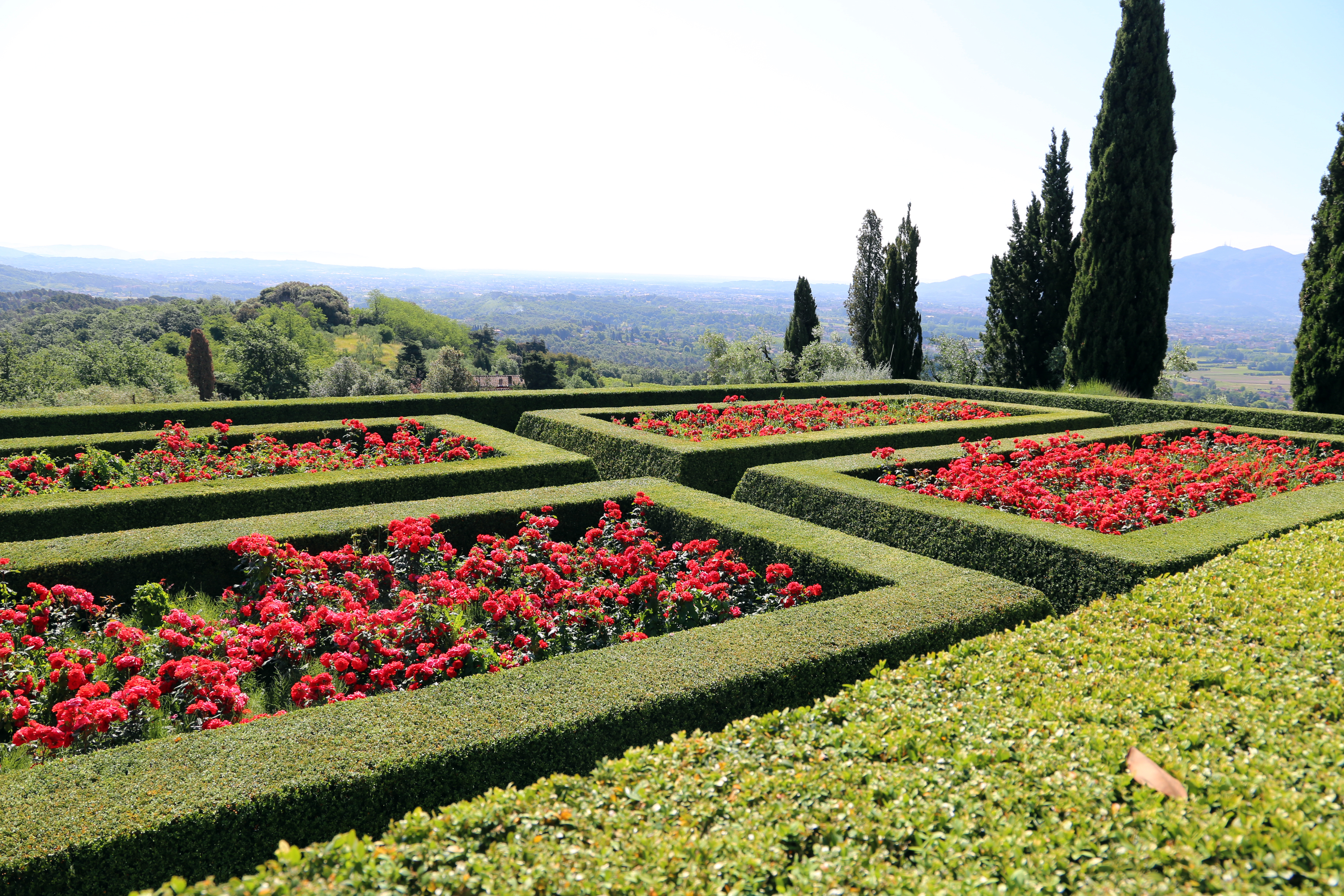 Villa Maria Teresa (Lucca)